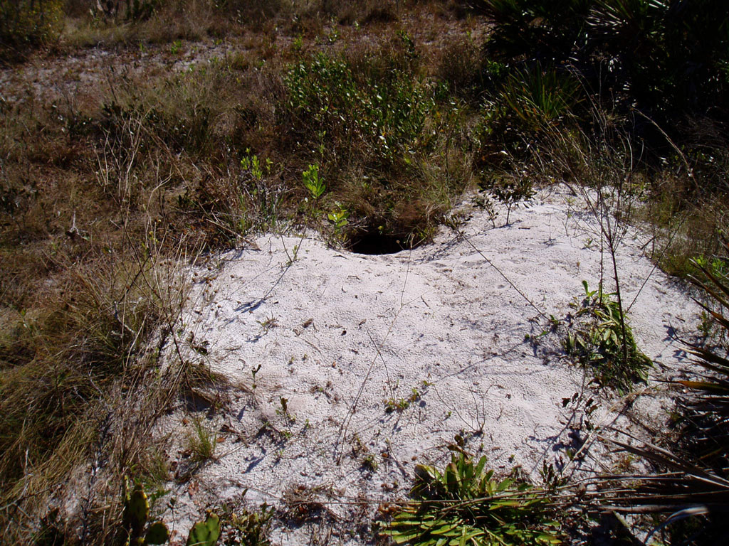 Hole of the Gopher Tortoise, taken at Platt Branch Mitigation Area near Venus, Highlands County, Florida.